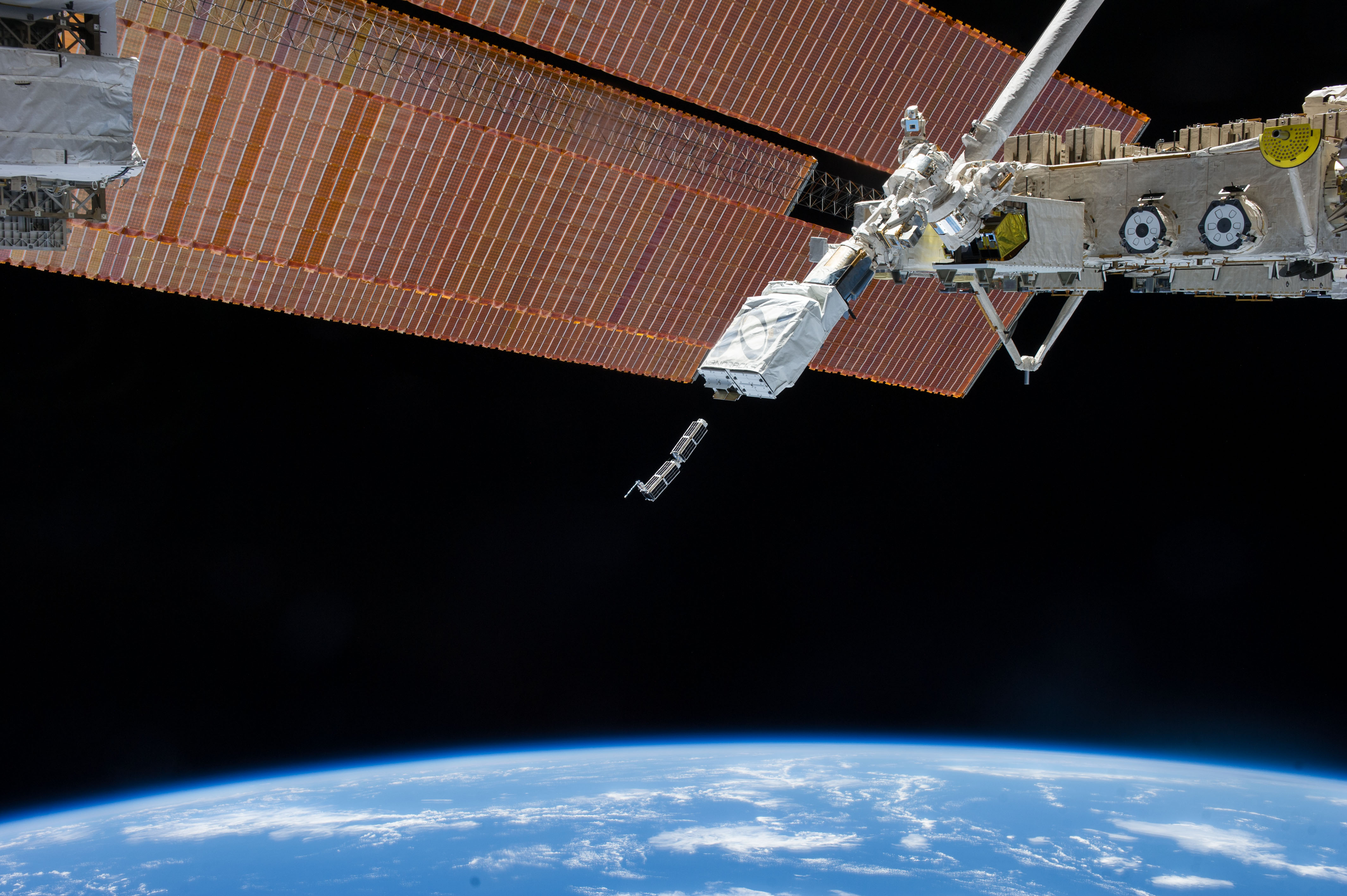 The first pair of the 28 Planet Labs Earth Observation satellites leave the ISS. You don't usually get this motion-picture quality perspective. But Koichi Wakata of JAXA was there for the money shot. Congrats to Planet Labs and their partners in this grand adventure! NASA description: The NanoRacks CubeSat Deployer (NRCSD), in the grasp of the Kibo laboratory robotic arm, is photographed by an Expedition 38 crew member on the International Space Station as NanoRacks deploys a set of Planet Labs Doves. The CubeSats program contains a variety of experiments such as Earth observations and advanced electronics testing. Station solar array panels, Earth's horizon and the blackness of space provide the backdrop for the scene.